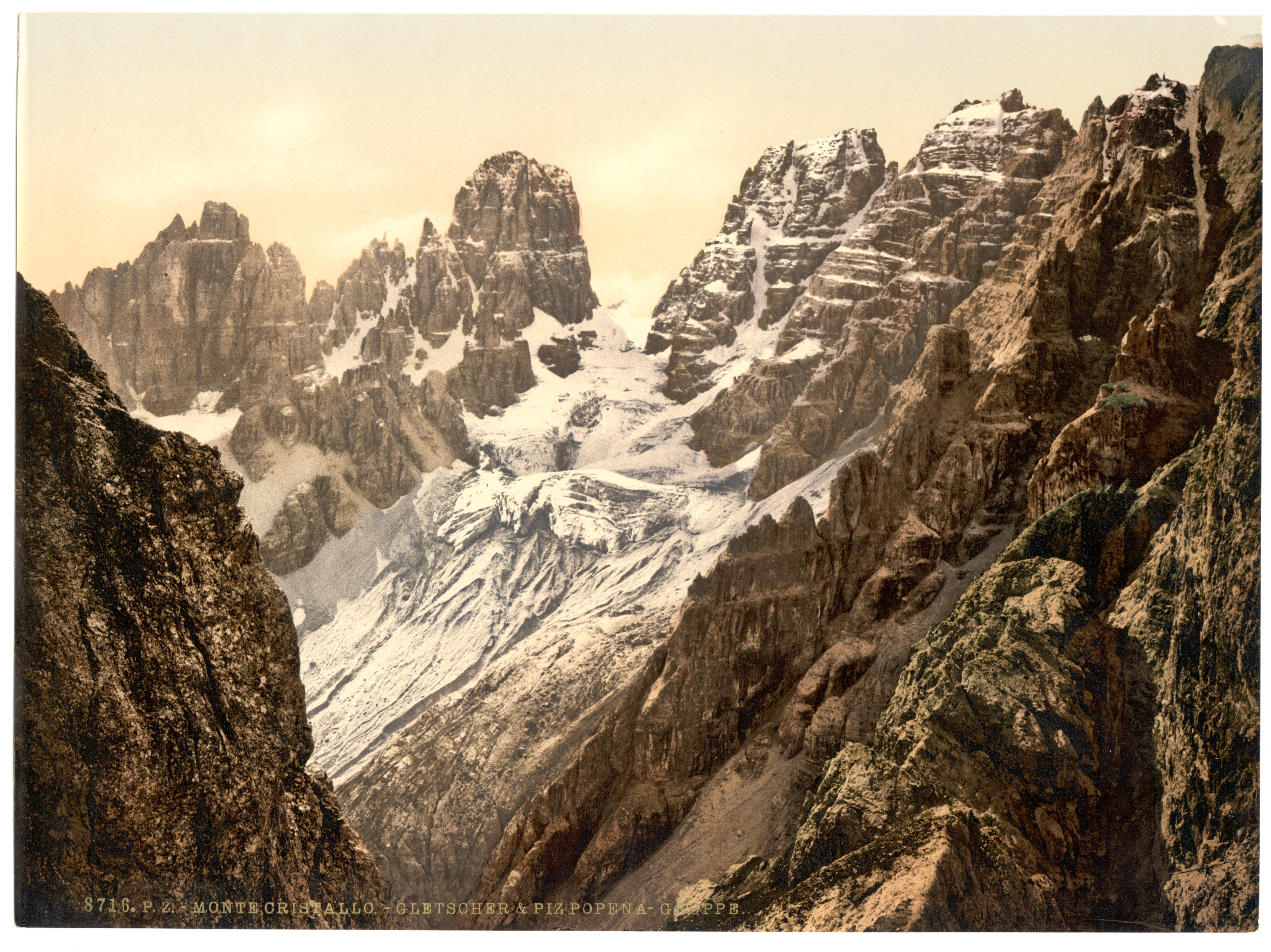 Print no. "8716".; Forms part of: Views of the Austro-Hungarian Empire in the Photochrom print collection.; Caption on item: Monte Cristallo - Gletscher and Piz Popena-gruppe; Title from the Detroit Publishing Co., Catalogue J-foreign section, Detroit, Mich. : Detroit Publishing Company, 1905.